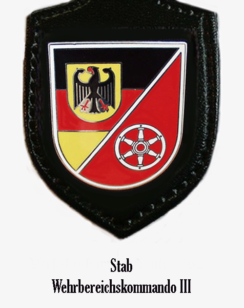 Internal coat of arms Stab Wehrbereichskommando III (WBK III) of the Bundeswehr (Armed Forces of the Federal Republic of Germany). → Remarks on naming and categorization scheme